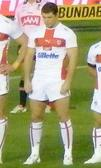 England 2008 RLWC